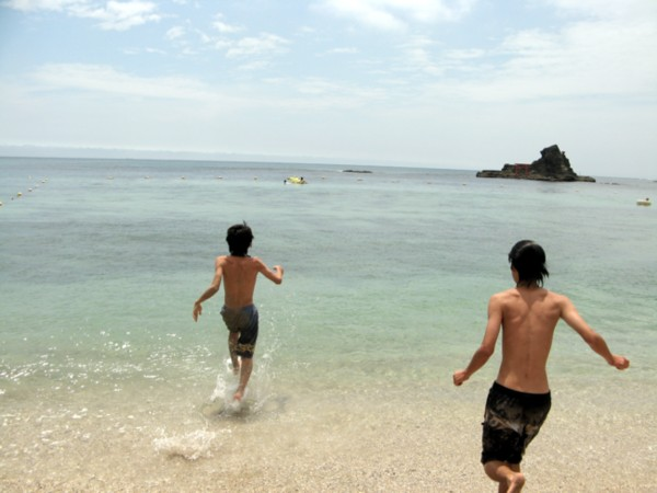 Moriya Beach, ca. August 2010